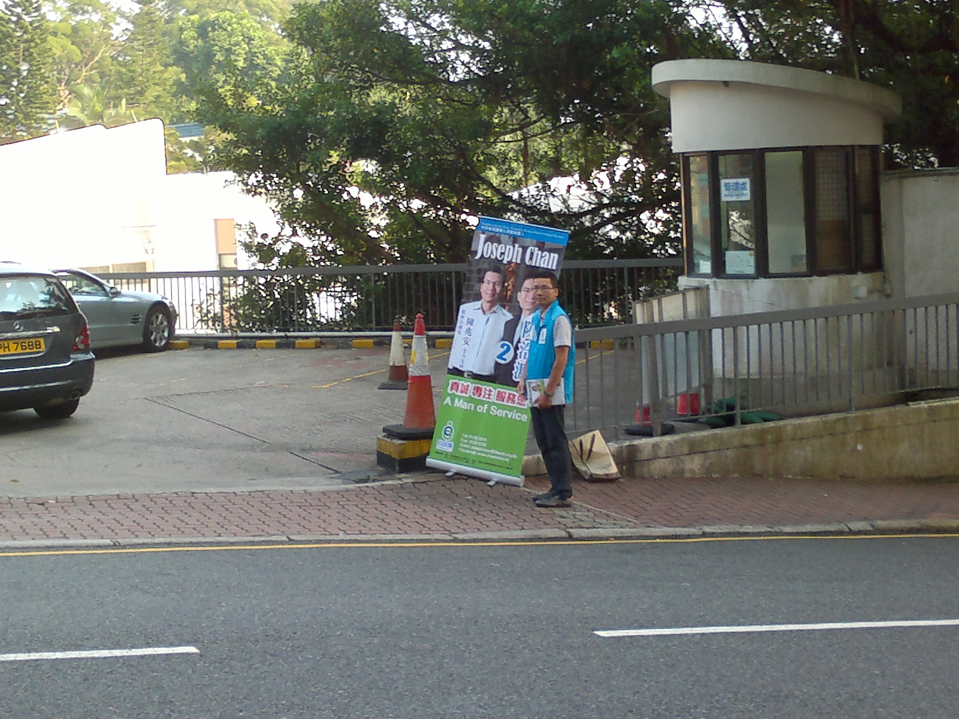 Chan Ho-lim Joseph DC 2011 Promotion